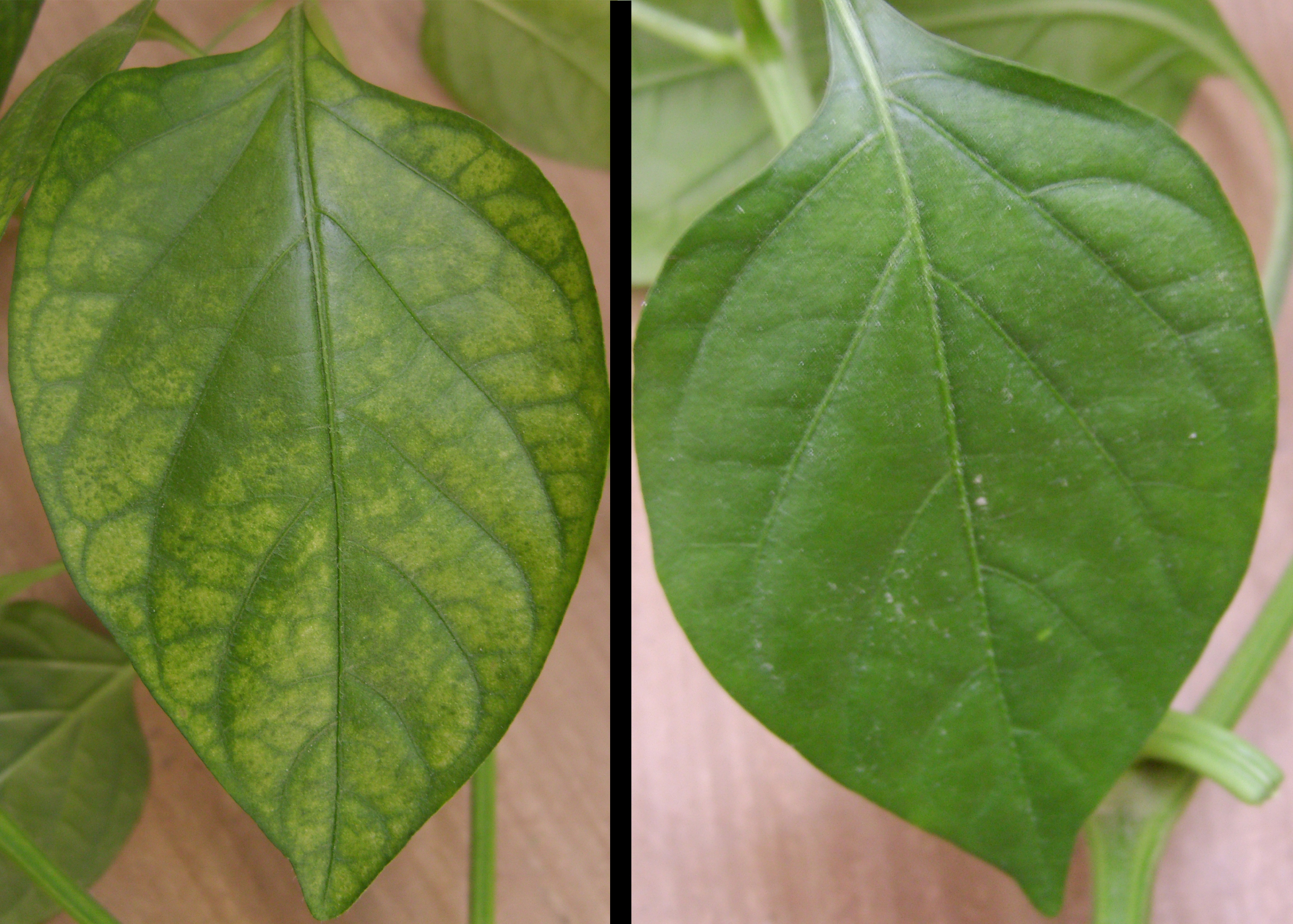 Chlorosis on Capsicum annuum leaf (on left). Normal and health leaf on right.